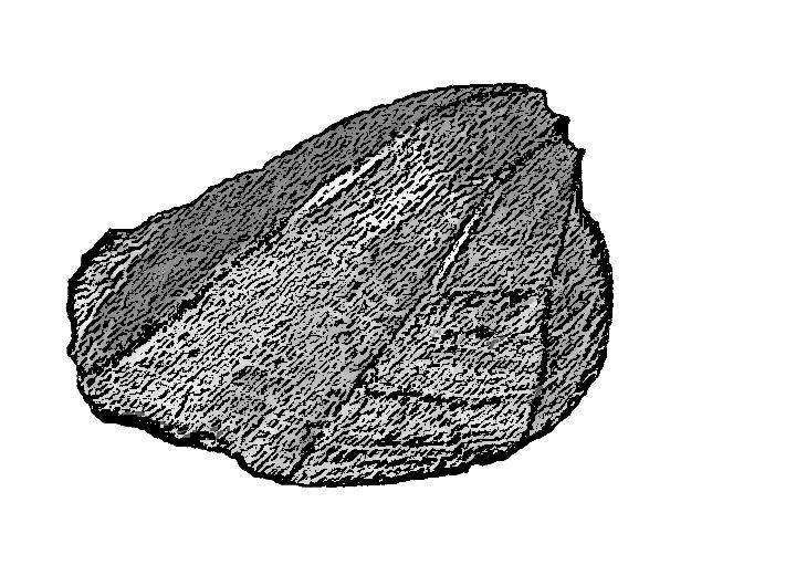 Myophoria kefersteini (Munster). A bivalvian from Carnian (Late Triassic) of Italy, Val Camonica.